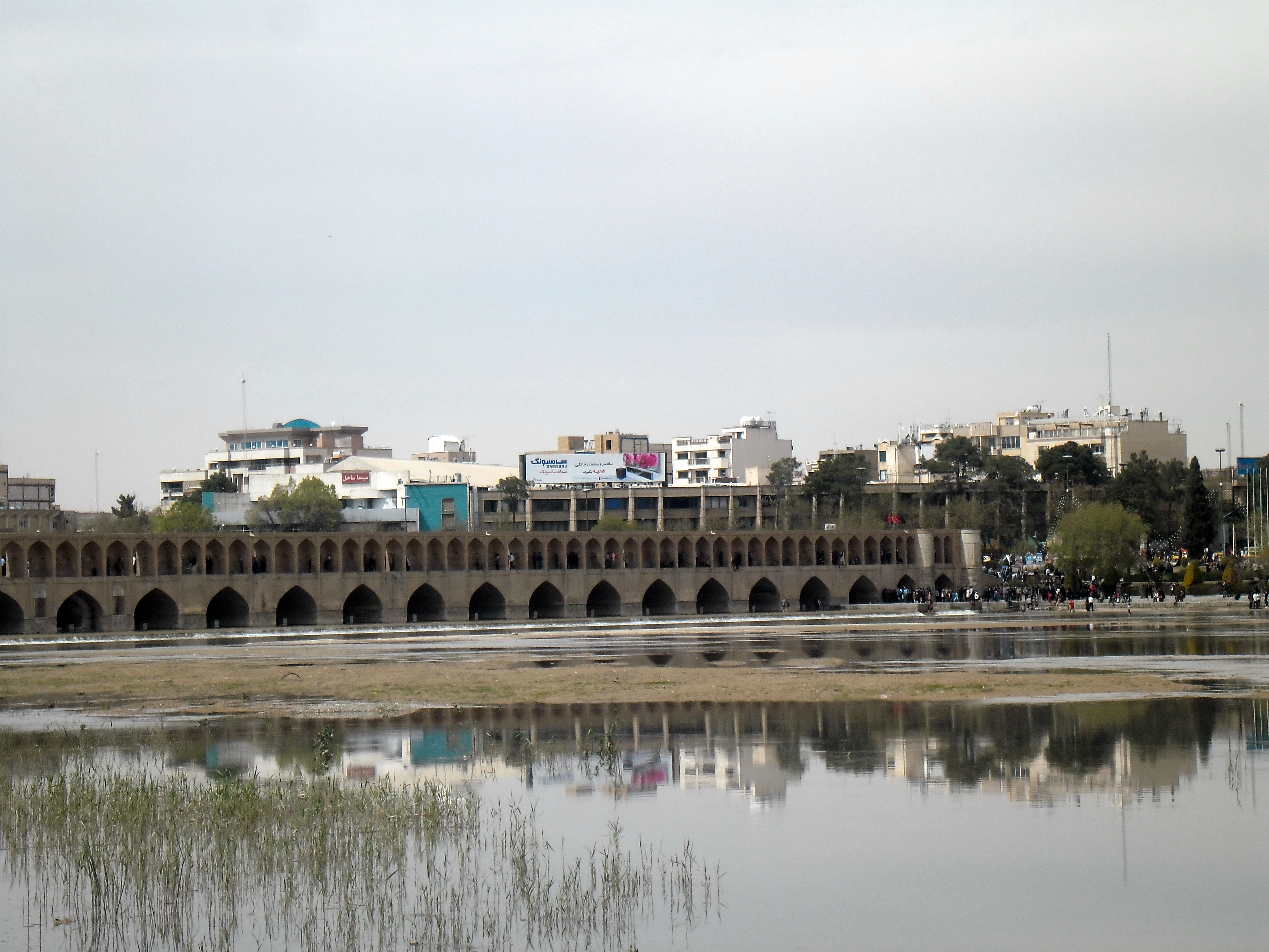 Siosepol in Nowruz 1394 -2015 - Isfahan